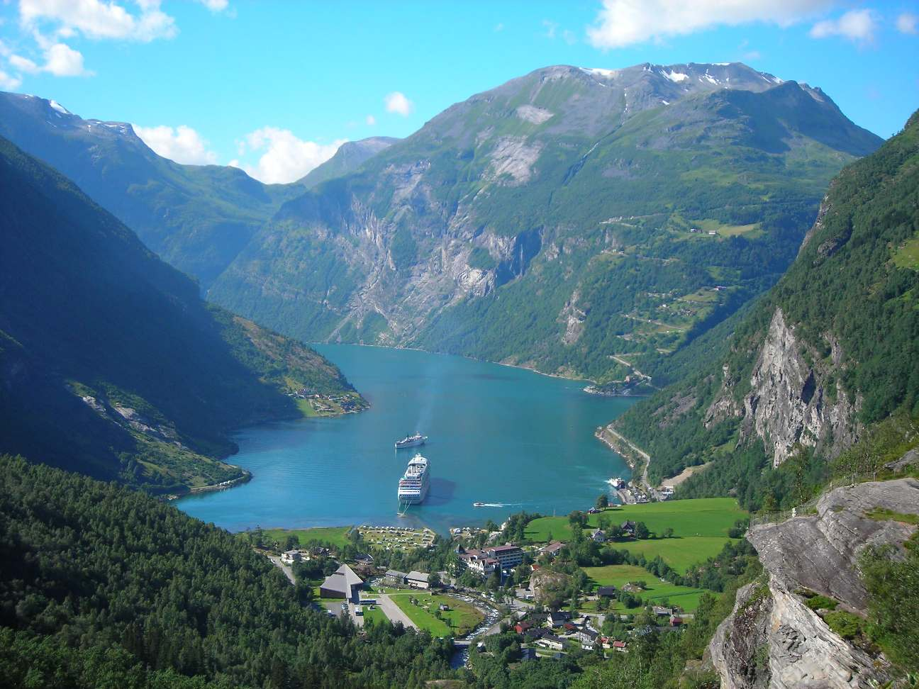 Geiranger, Norway, from southeast (Flydalsjuvet)